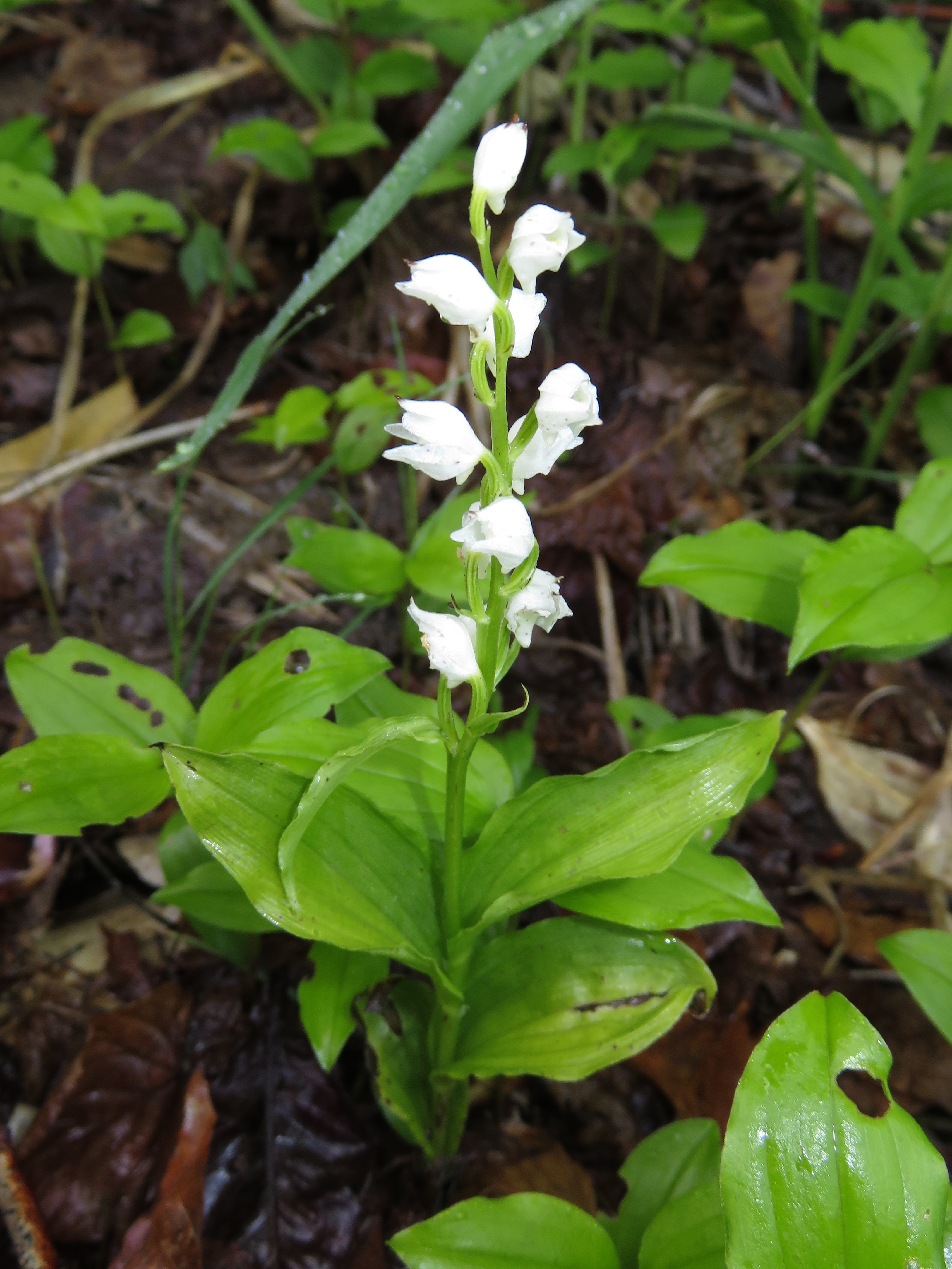 Cephalanthera erecta, Mount Bandai, Fukushima pref., Japan